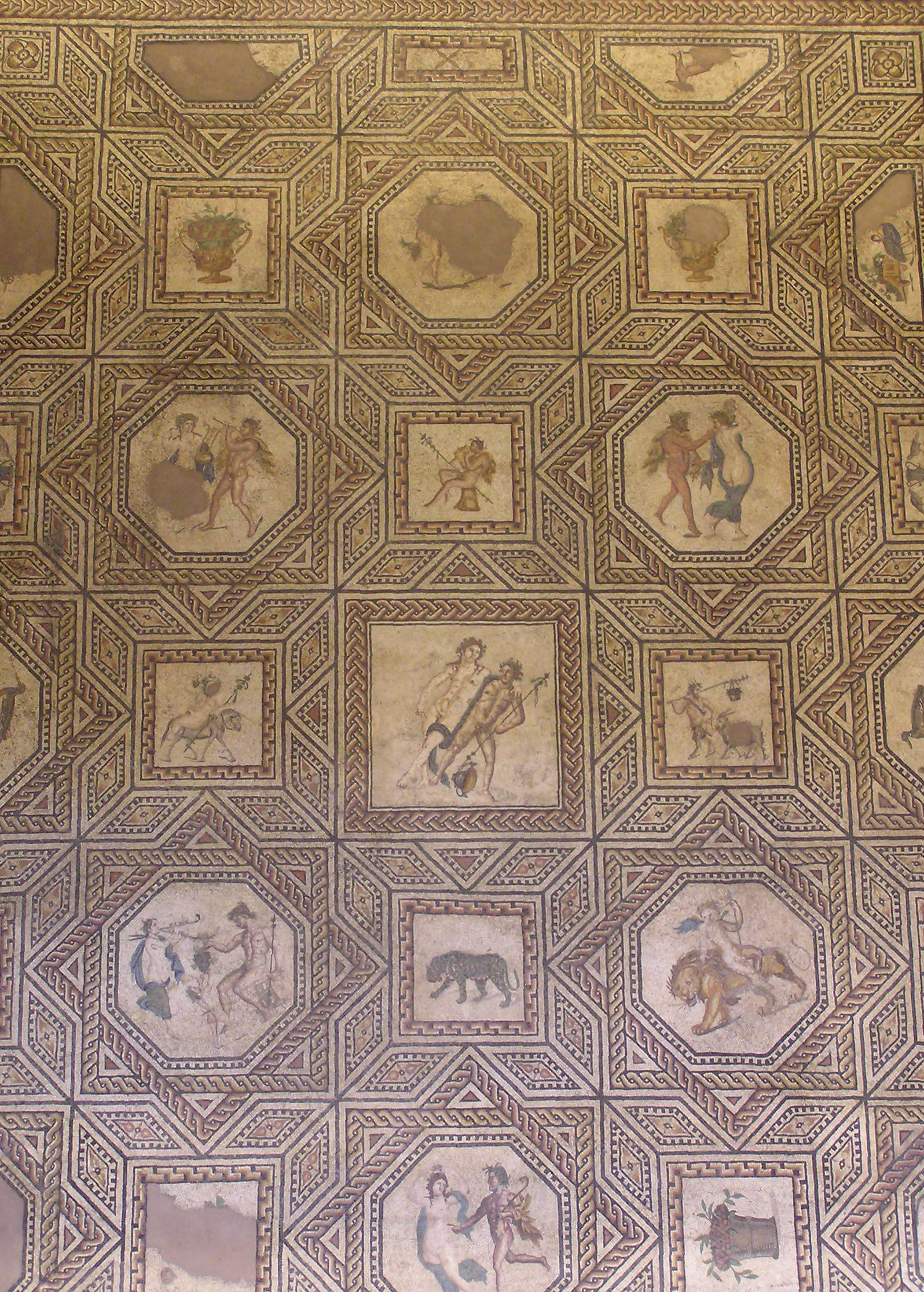 The Ancient Roman floor mosaic depicting dionysiac scenes (Dionysosmosaik), dating from the 220s AD. Exhibited in the "Römisch-Germanisches Museum" in Cologne (Germany).